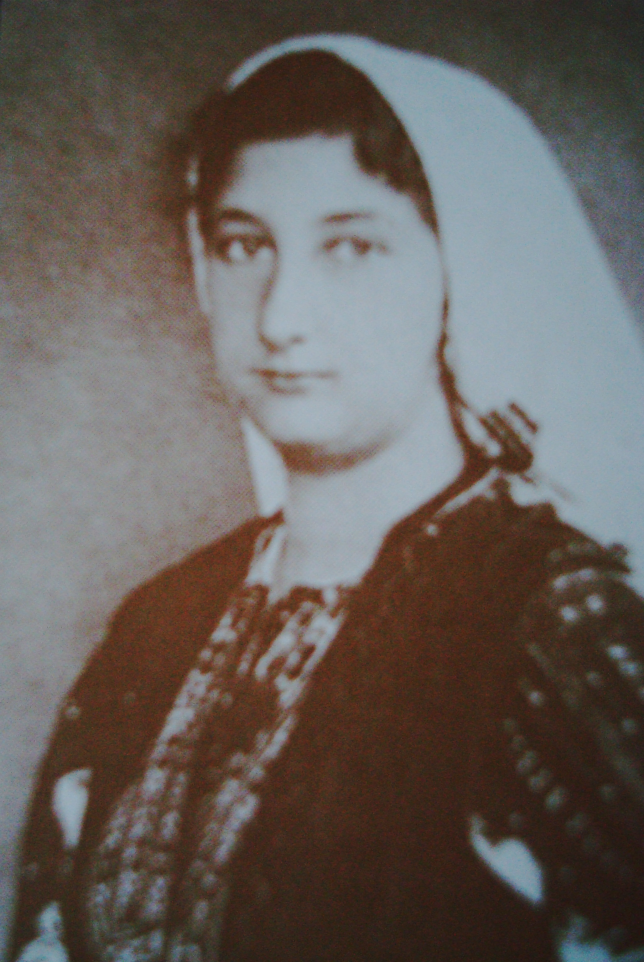 Princess Eudoxia of Bulgaria, eldest daughter and third child of King Ferdinand of Bulgaria and his first wife Princess Marie Louise of Bourbon-Parma.